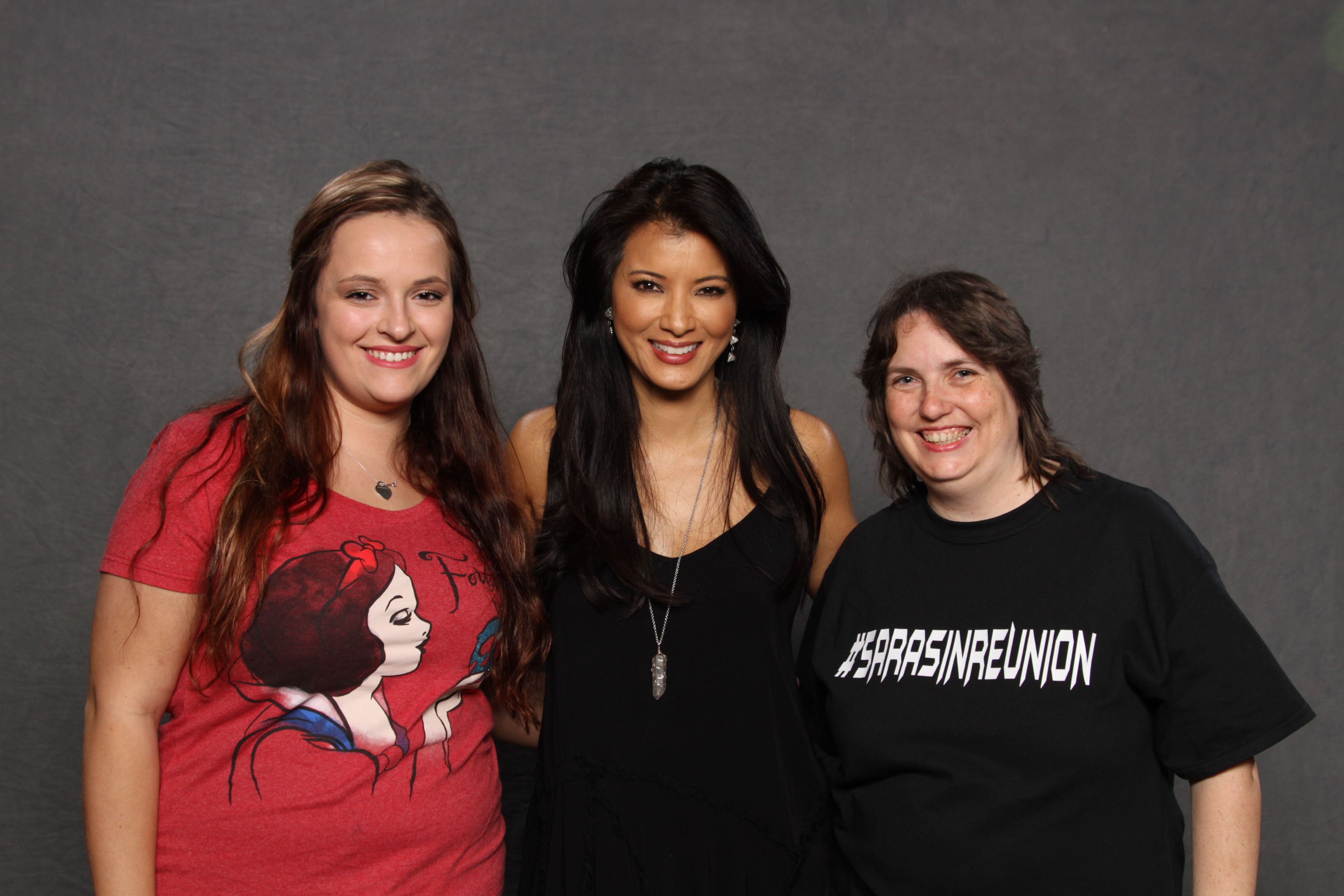 Hu at the 2016 MagicCity Comic Con